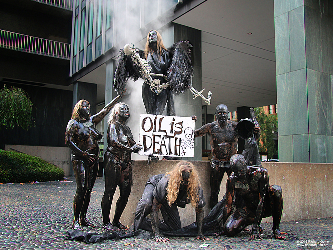 Jil Love Revolution Internationally raising awareness about the dangers of the North Dakota access pipeline. Taken in San Francisco, November 2016 while an Artivism performance event in front of Wells Fargo Bank, a stakeholder of the pipeline, among other US banks.